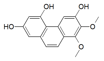 Chemical structure of coeloginanthrin